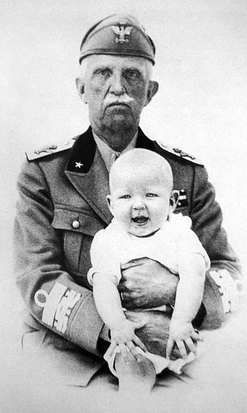 King Victor Emmanuel III of Italy and his grandson